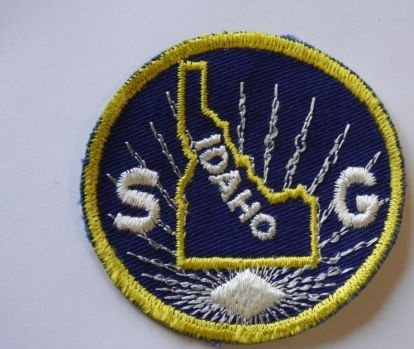 This is the Idaho State Guard patch from World War 2